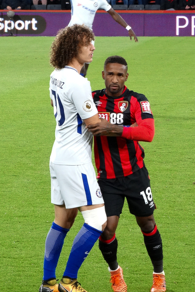 Jermain Defoe in action for Bournemouth